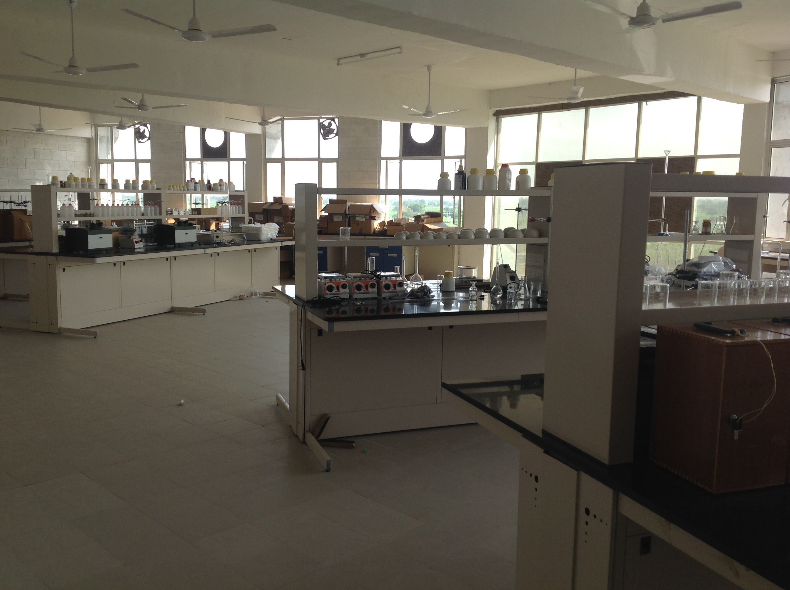 Chemistry Lab ,Akal University, Talwandi Sabo, Punjab India